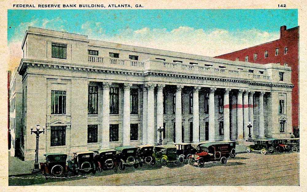 Federal Reserve Bank of Atlanta (built 1918) after expansion in 1920 and/or 1922, now the State Bar of Georgia building